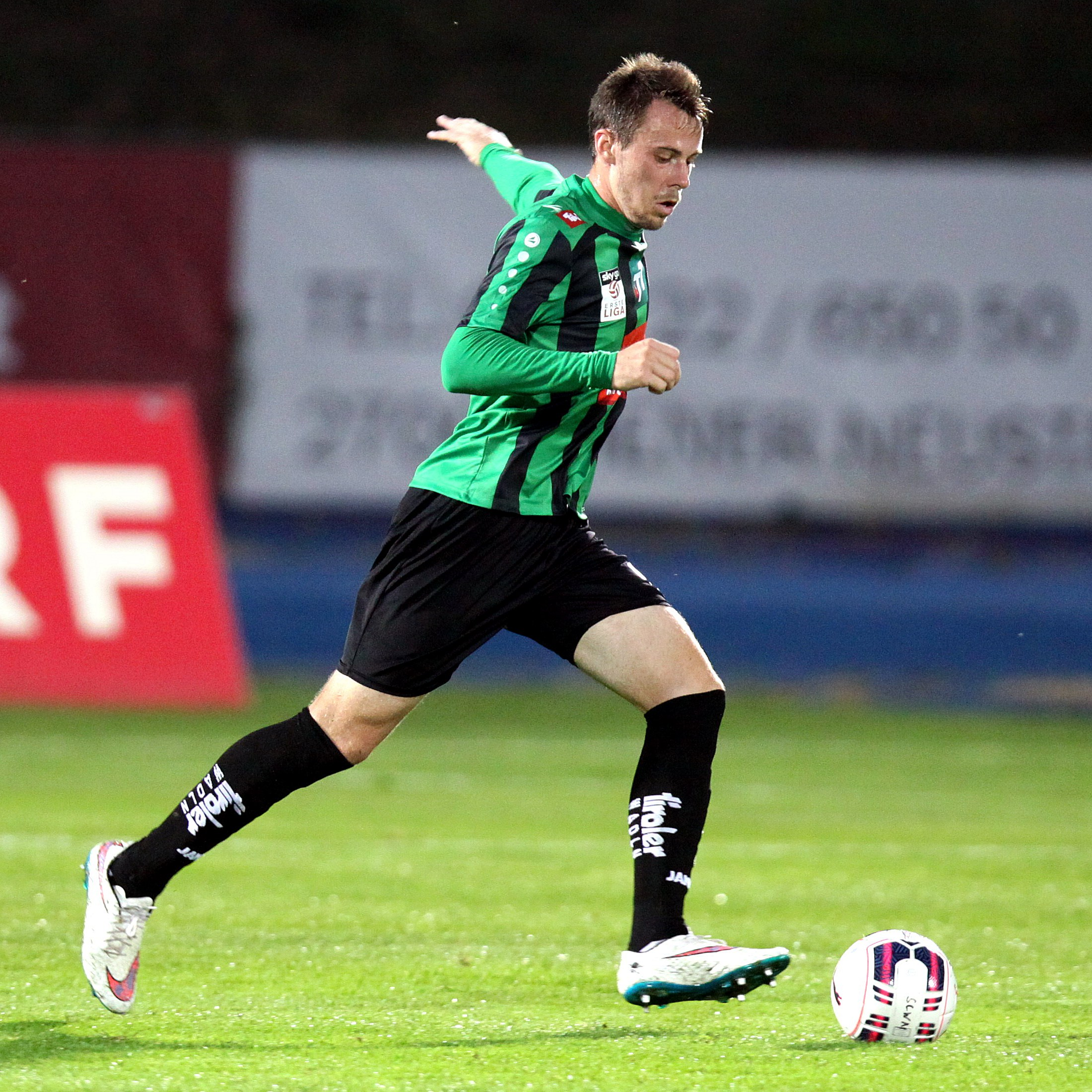 Match of the Erste Liga – SC Wiener Neustadt (blue/white shirts) vs. FC Wacker Innsbruck (green/black shirts) 1–2 (0–1) on 2015-09-15 in the Stadion in Wiener Neustadt – The photo shows Armin Hamzic (FC Wacker Innsbruck).